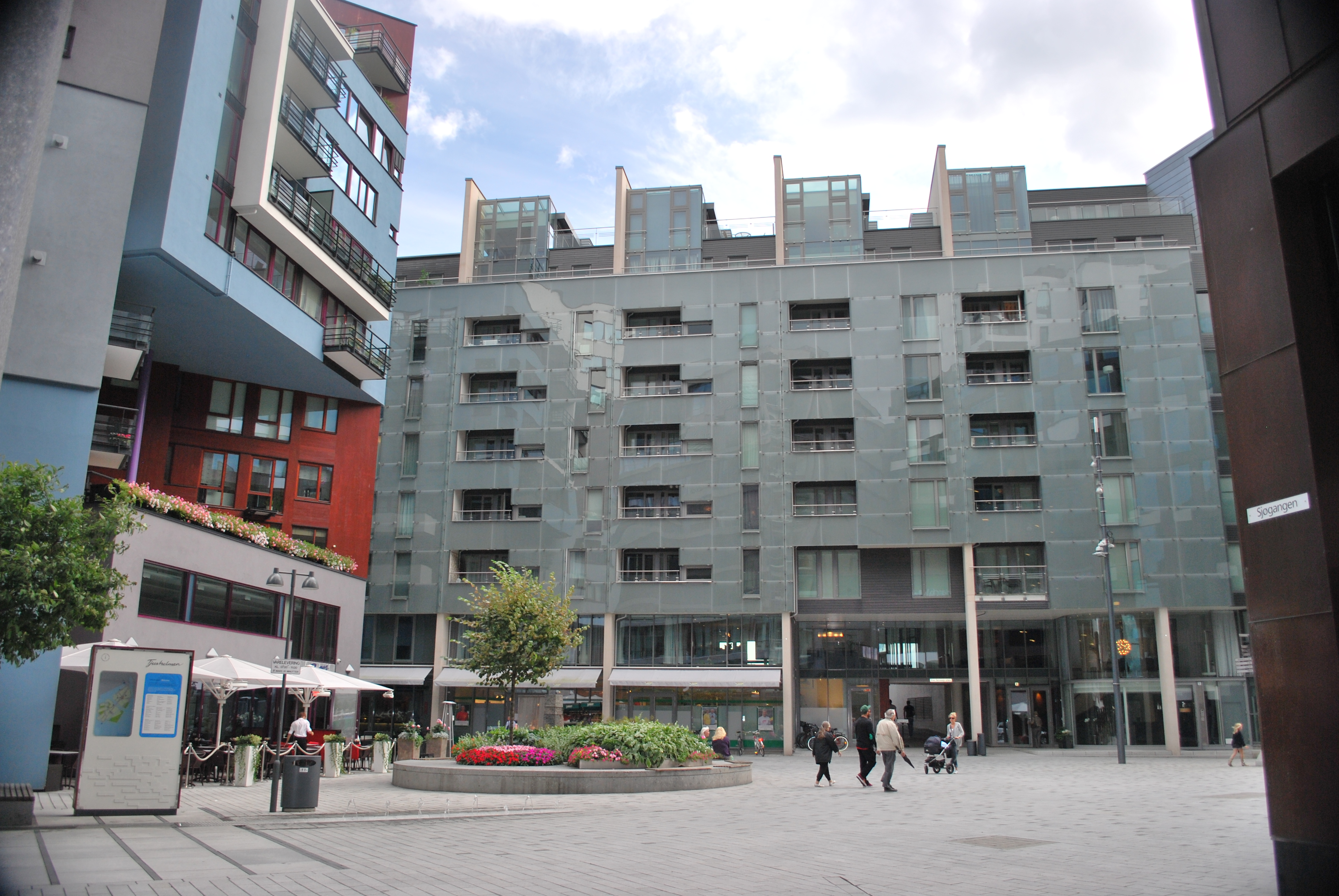 Olav Selvaags plass sett fra Sjøgangen, Odden, Tjuvholmen, Oslo